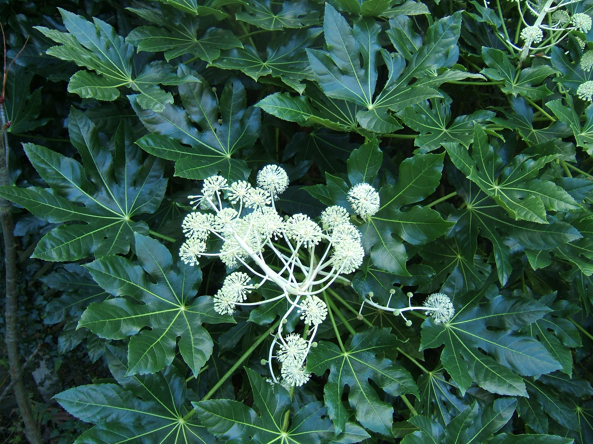 Fatsia japonica in flower, 15 November 2005; cultivated, UK